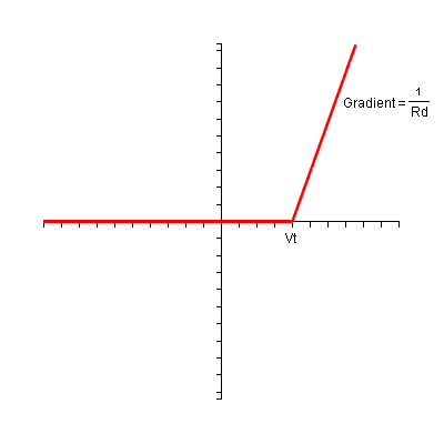 Author: Amr Bekhit